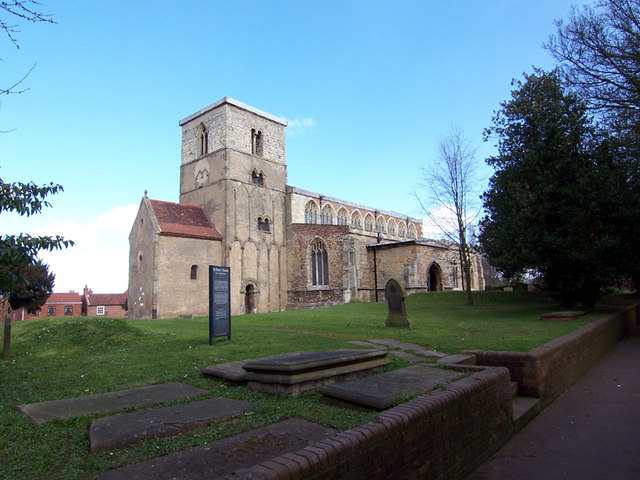 Church of St. Peter Church of St. Peter, Barton Upon Humber. This building is now under the care of English Heritage. The tower is Saxon.